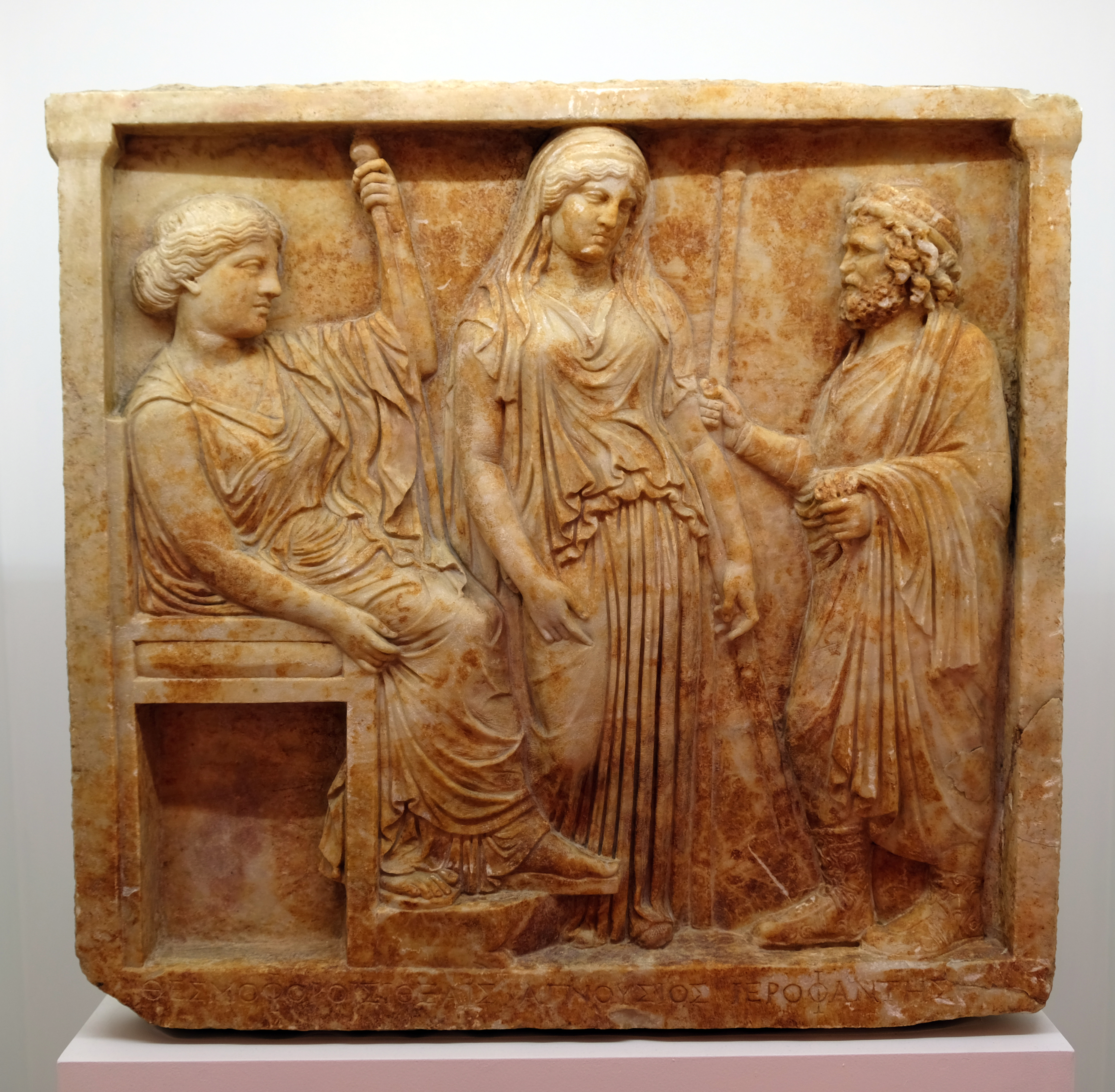 from area of Olympieion. II century AD. The inscription show the dedication.